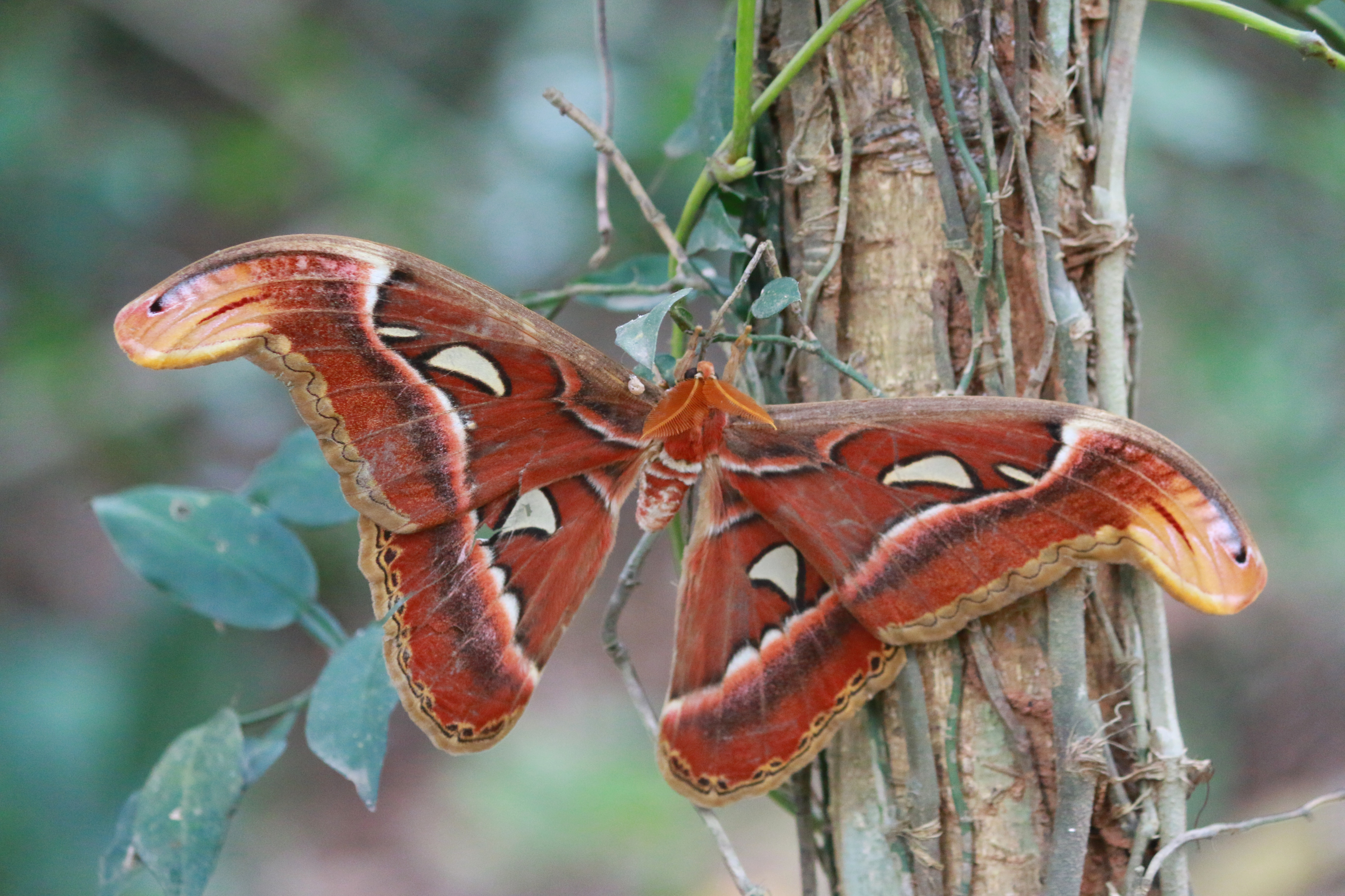 Atlas Moth,Attacus taprobanis